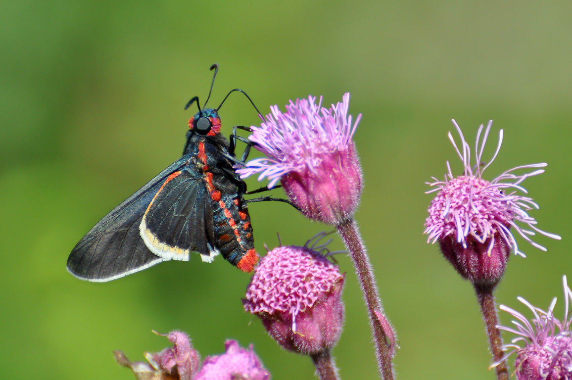 Mysoria barcastus barta photographed in Rio Grande do Sul, Brazil, in March 2011.